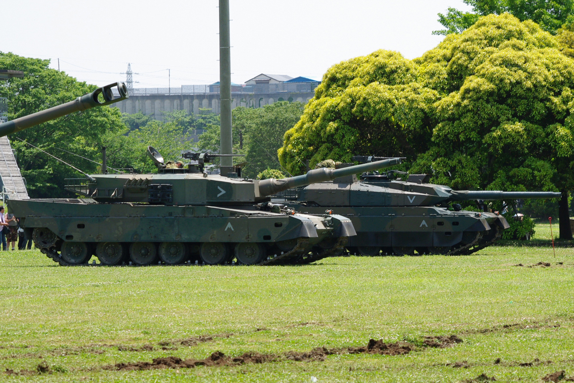 JGSDF Type10 Tank (production model)&Type90 tank,1st Armored Training Unit/Eastern Army Combined Brigade.Taken by Los688,in Camp Takeyama,Japan,at 27-May-2012.PD-self ja:10式戦車（量産型）2012年05月27日、東部方面混成団第1機甲教育隊 武山駐屯地で撮影。90式戦車と並んで